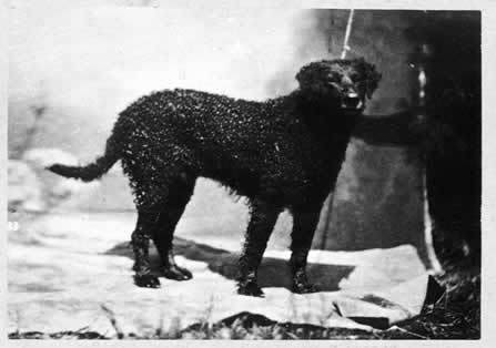 A Curly-Coated Retriever named 'Joby' owned by E. How.